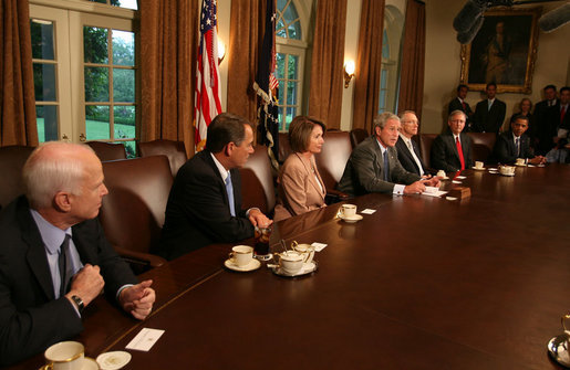 President George W. Bush speaks during a meeting with Bicameral and Bipartisan members of Congress Thursday, Sept. 25, 2008, in the Cabinet Room of the White House. Included in the meeting with the President are, from left: Sen. John McCain, R-Ariz., House Minority Leader John Boehner, R-Ohio, House Speaker Nancy Pelosi, D-Calif.; Senate Majority Leader Harry Reid, D-Nev.; Senate Minority Leader Mitch McConnell, R-Ky., and Sen. Barack Obama, D-Ill.